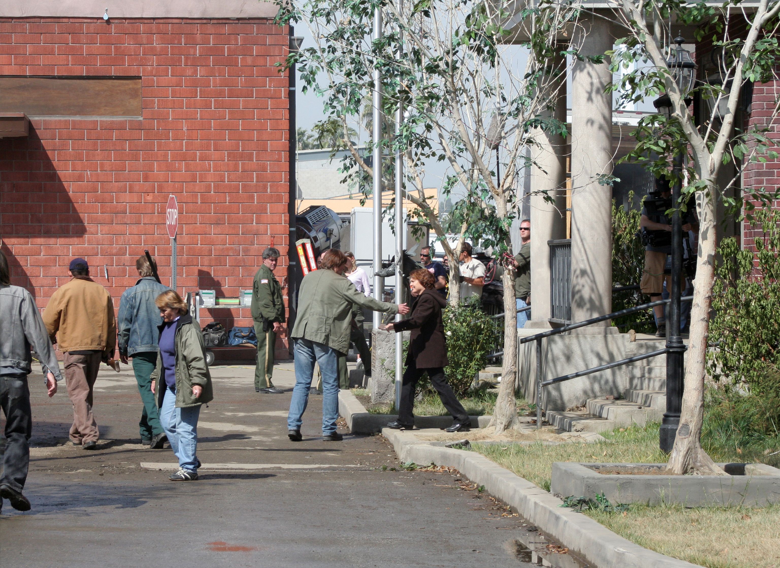 Jericho (TV series) - Action shot from the beginning of the season 1 finale. The building on the right in City Hall and the building in the back is Gracie Leigh's Supermarket. "Charlie" and Gail Green are visible (center).